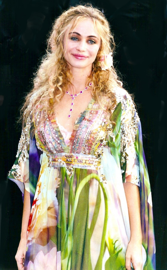 Emmanuelle Béart